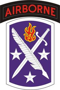 95th Civil Affairs Brigade Shoulder Sleeve Insignia